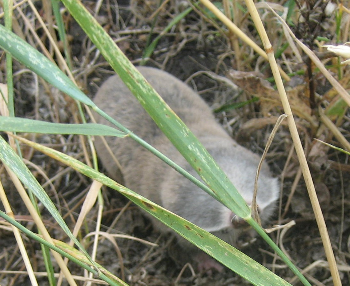 Spalax microphthalmus